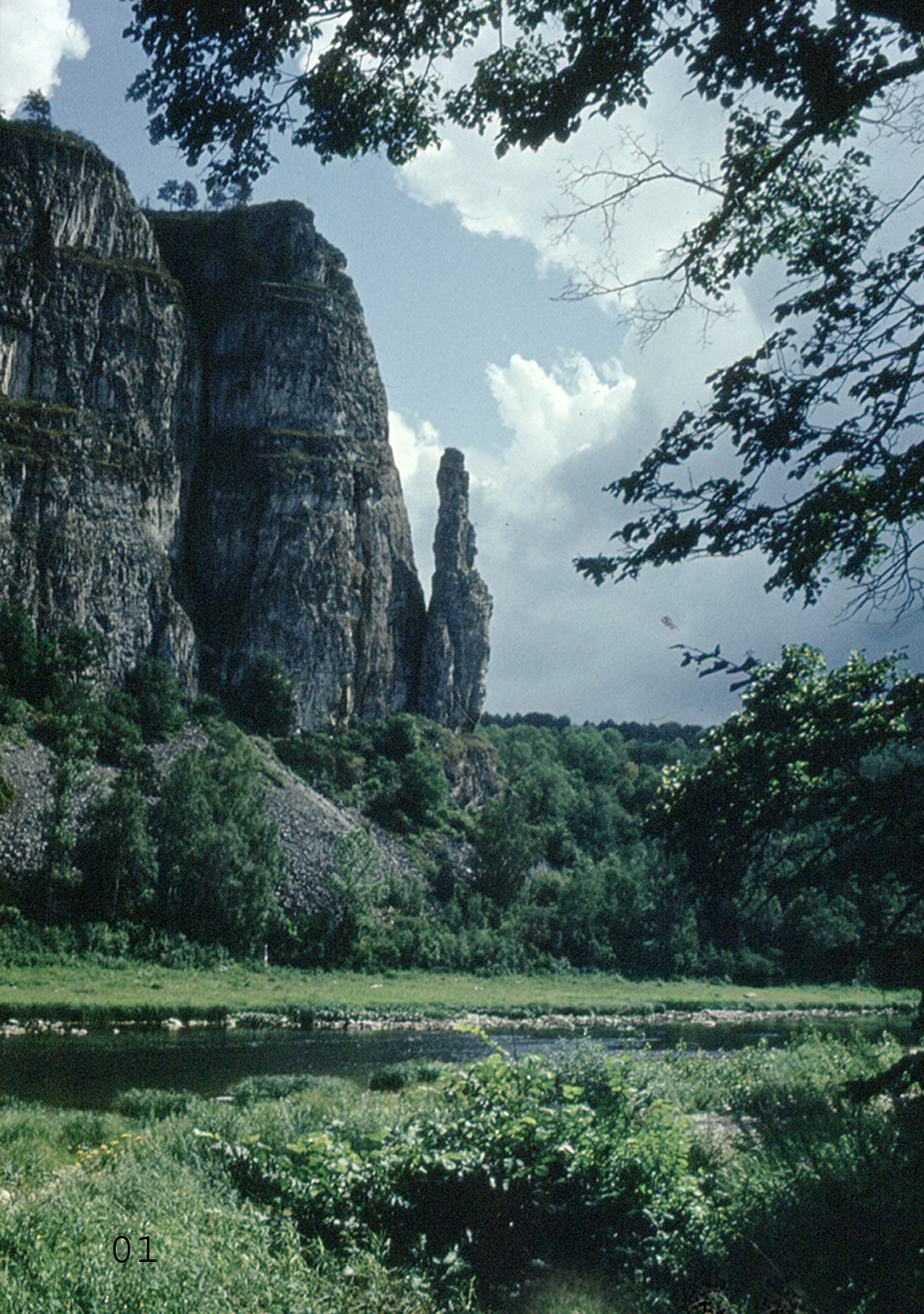 The middle section of the river.